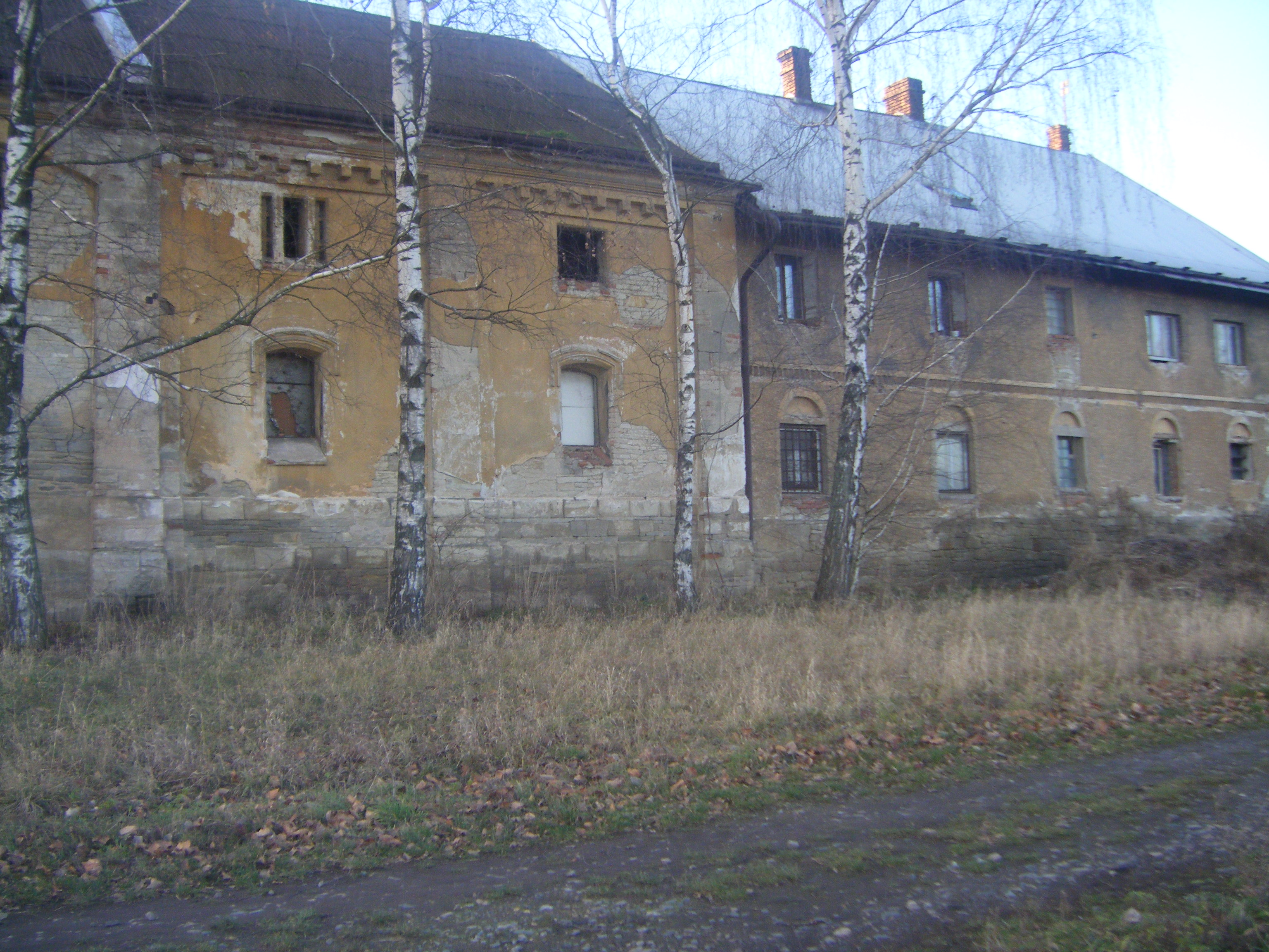 Castle in Nabočany